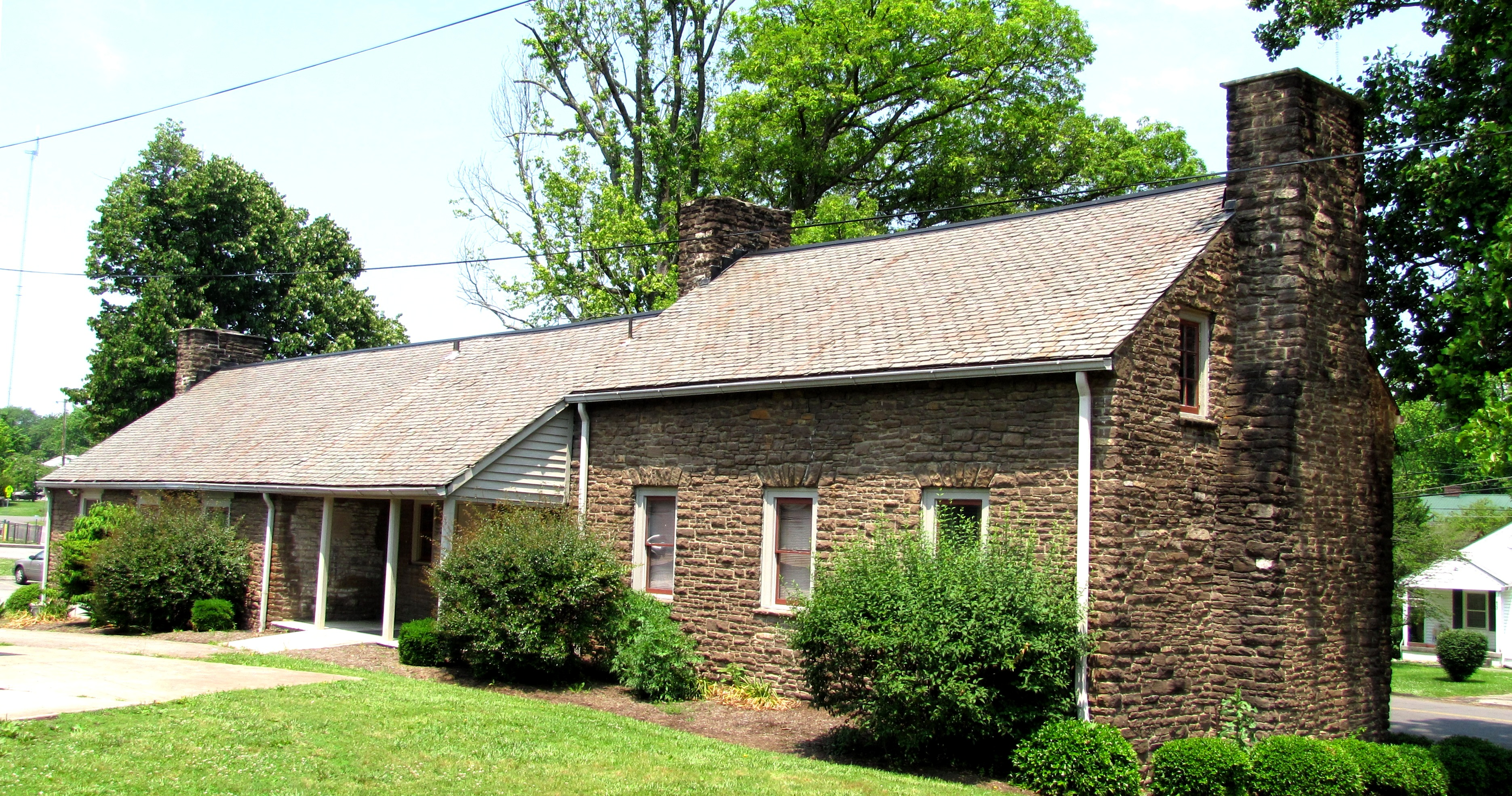 The NRHP-listed Christenberry Clubhouse in Knoxville, Tennessee, USA. This clubhouse, built in 1939, was designed by the architectural firm Barber & McMurry.